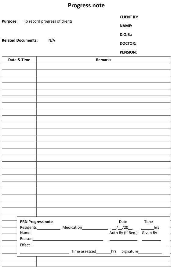 Figure 4. A sample progress note in an Australian residential aged care home.